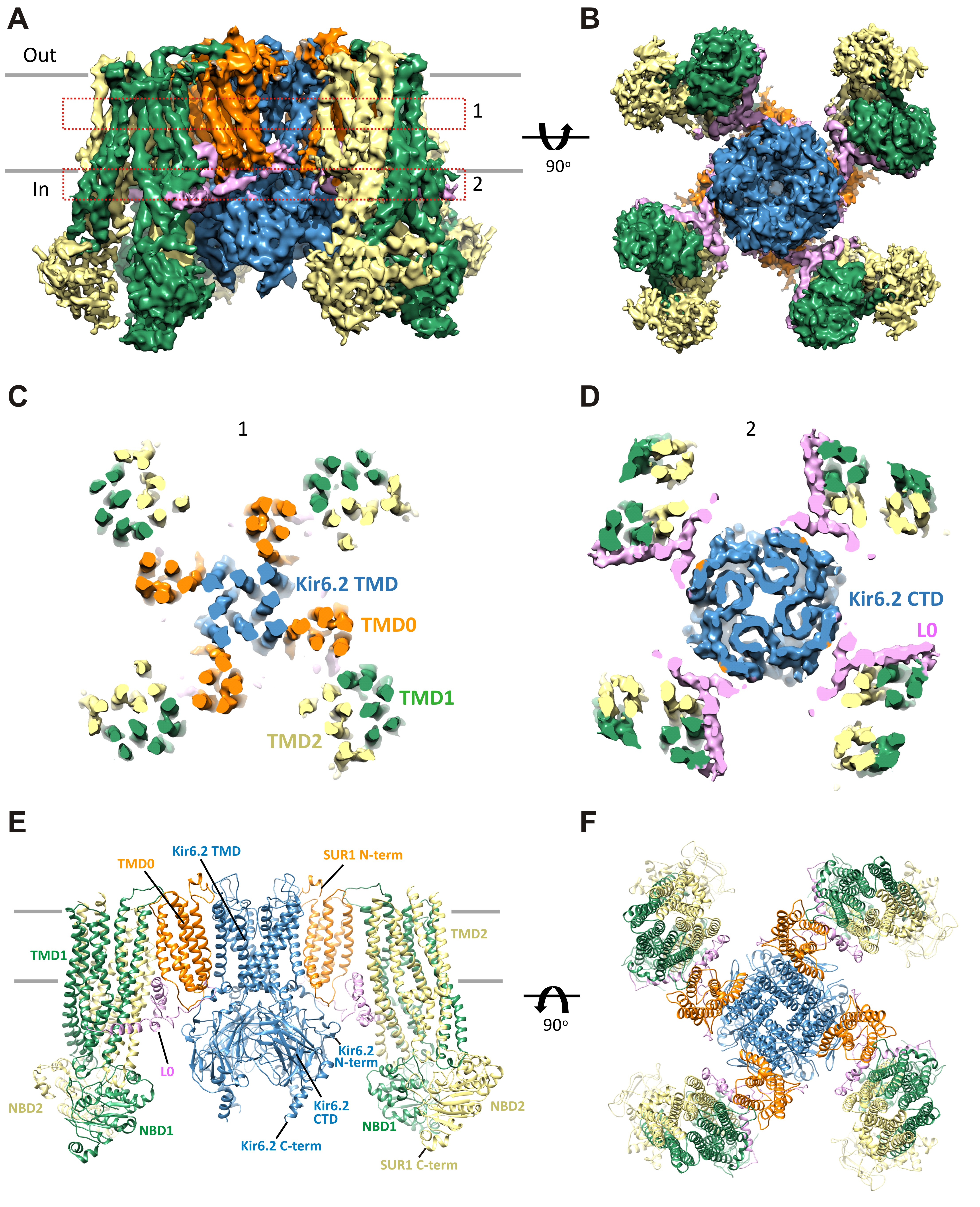 Three-dimensional reconstruction of the KATP channel. (A) Cryo-EM density map of the KATP channel complex at an overall resolution of 5.8 Å, viewed from the side. The four Kir6.2 subunits in the center are colored blue, SUR1 is in orange (TMD0), lavender (L0), green (TMD1/NBD1), and yellow (TMD2/NBD2). Gray bars indicate approximate positions of the lipid bilayer. (B) View of the complex from the cytoplasmic side. (C and D) Cross-sections of the density map. The planes where the sections 1 and 2 are made are shown in (A). (E) Model of SUR1 and Kir6.2 constructed from the EM density map viewed from the side. A Kir6.2 tetramer and only two SUR1 subunits are shown for clarity. (F) The model viewed from the extracellular side.